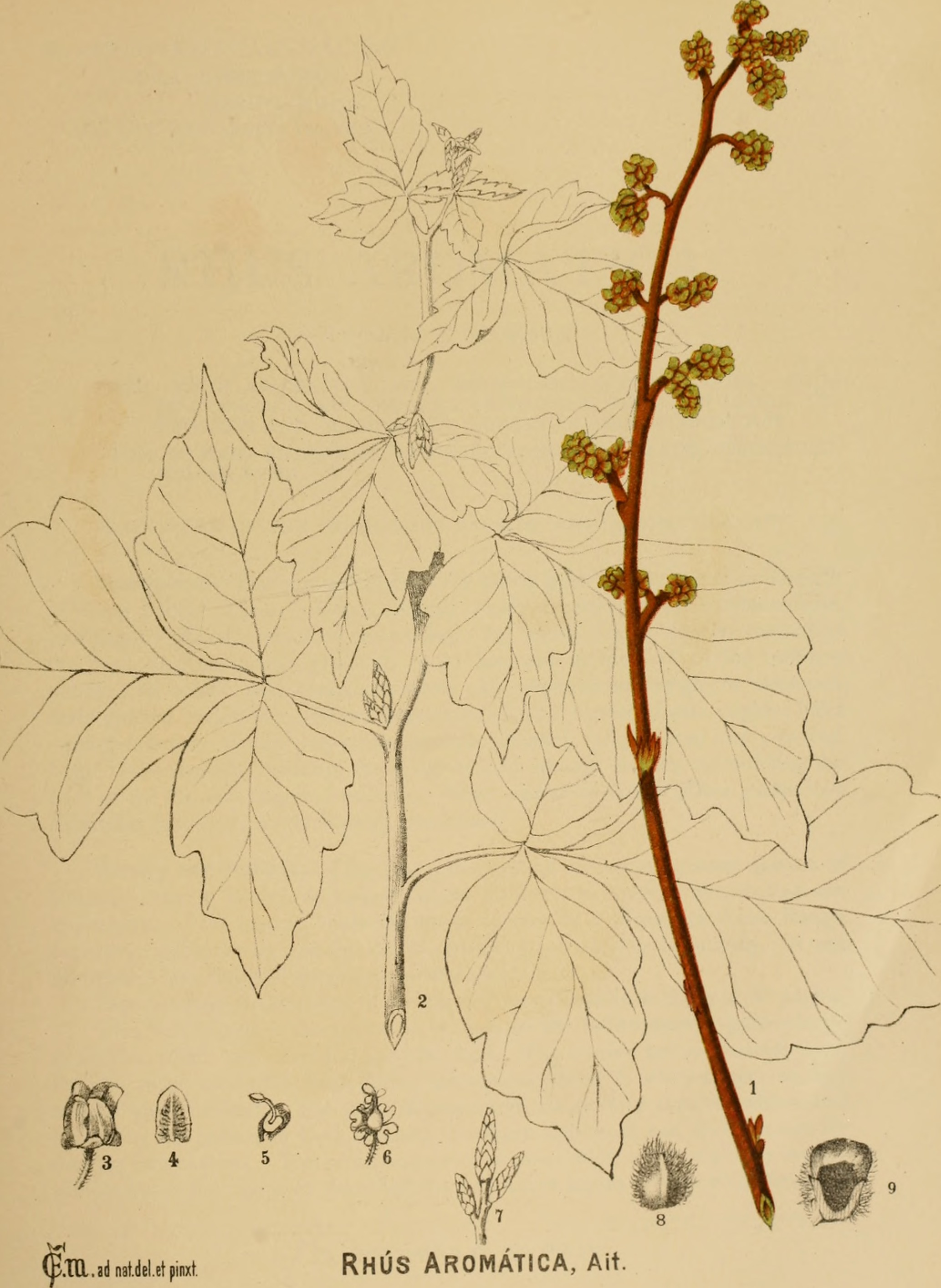 Title: American medicinal plants; an illustrated and descriptive guide to the American plants used as homopathic remedies: their history, preparation, chemistry and physiological effects Year: 1887 (1880s) Authors: Millspaugh, Charles Frederick, 1854-1923 Subjects: Botany, Medical; Botany Publisher: New York, Boericke & Tafel Text Appearing Before Image: 39. Text Appearing After Image: I naidel.et pinxt. 7 8 Rhus Aromatica, Ait.